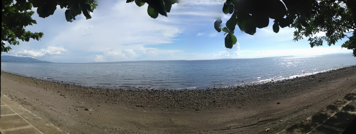 Baybay Visayas State University